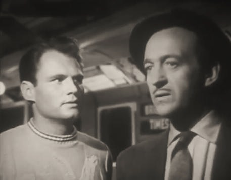 Adam Williams (left) & David Niven in the American TV series Four Star Playhouse, episode Night Ride (cropped screenshot)